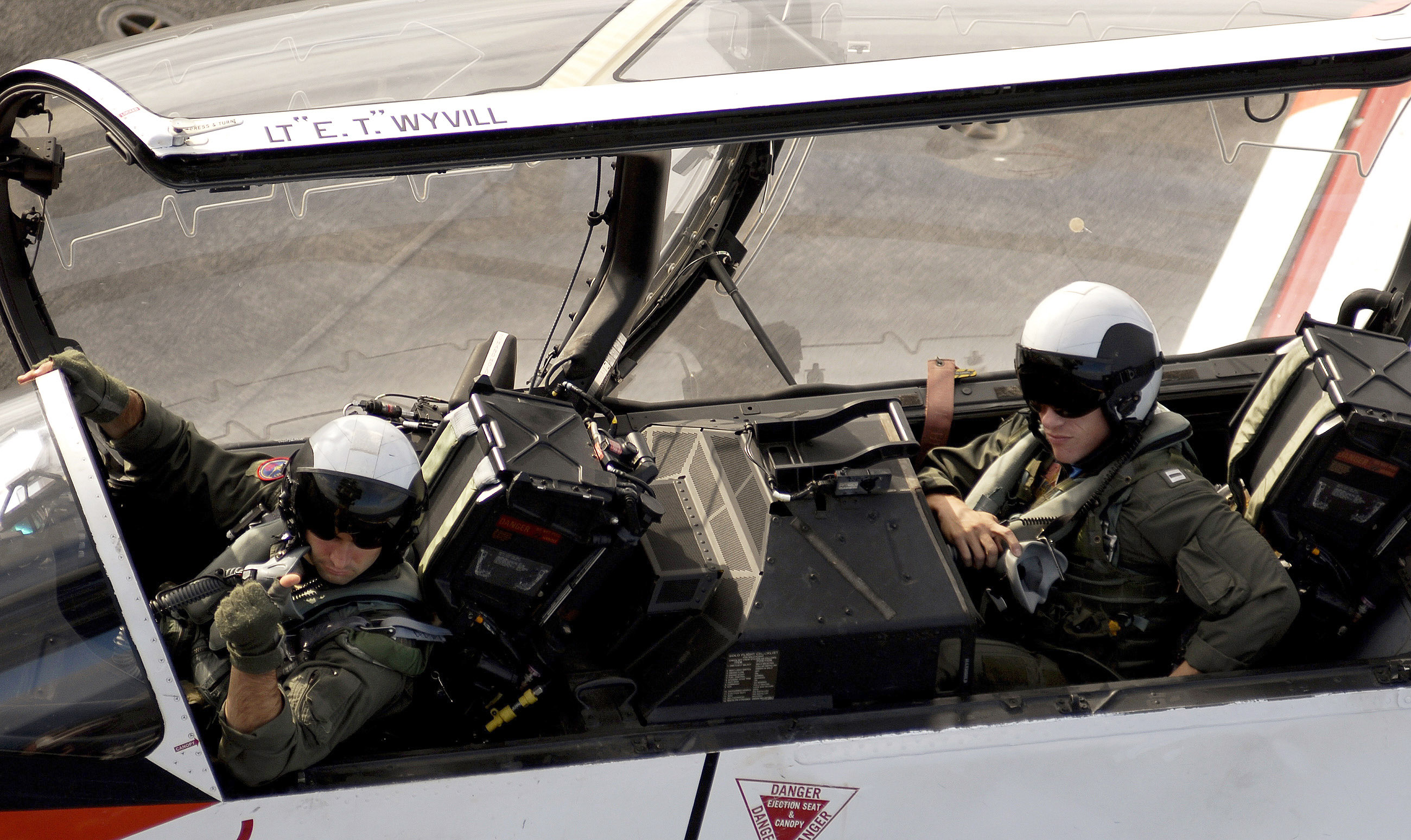 Pacific Ocean (Oct. 17, 2006) - An instructor pilot is joined by his student in the cockpit of a T-45C Goshawk on the flight deck aboard the Nimitz-class aircraft carrier USS Ronald Reagan (CVN 76). The Reagan is currently conducting carrier qualifications off the coast of southern California. U.S. Navy photo by Mass Communication Specialist 2nd Class Aaron Burden (RELEASED)